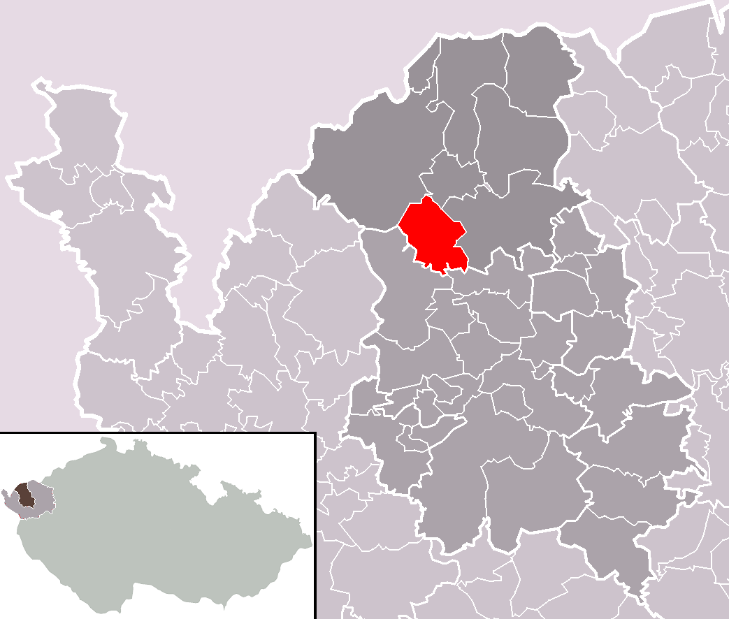 Location of Oloví town within Sokolov District and administrative area of Kraslice as a Municipality with Extended Competence.